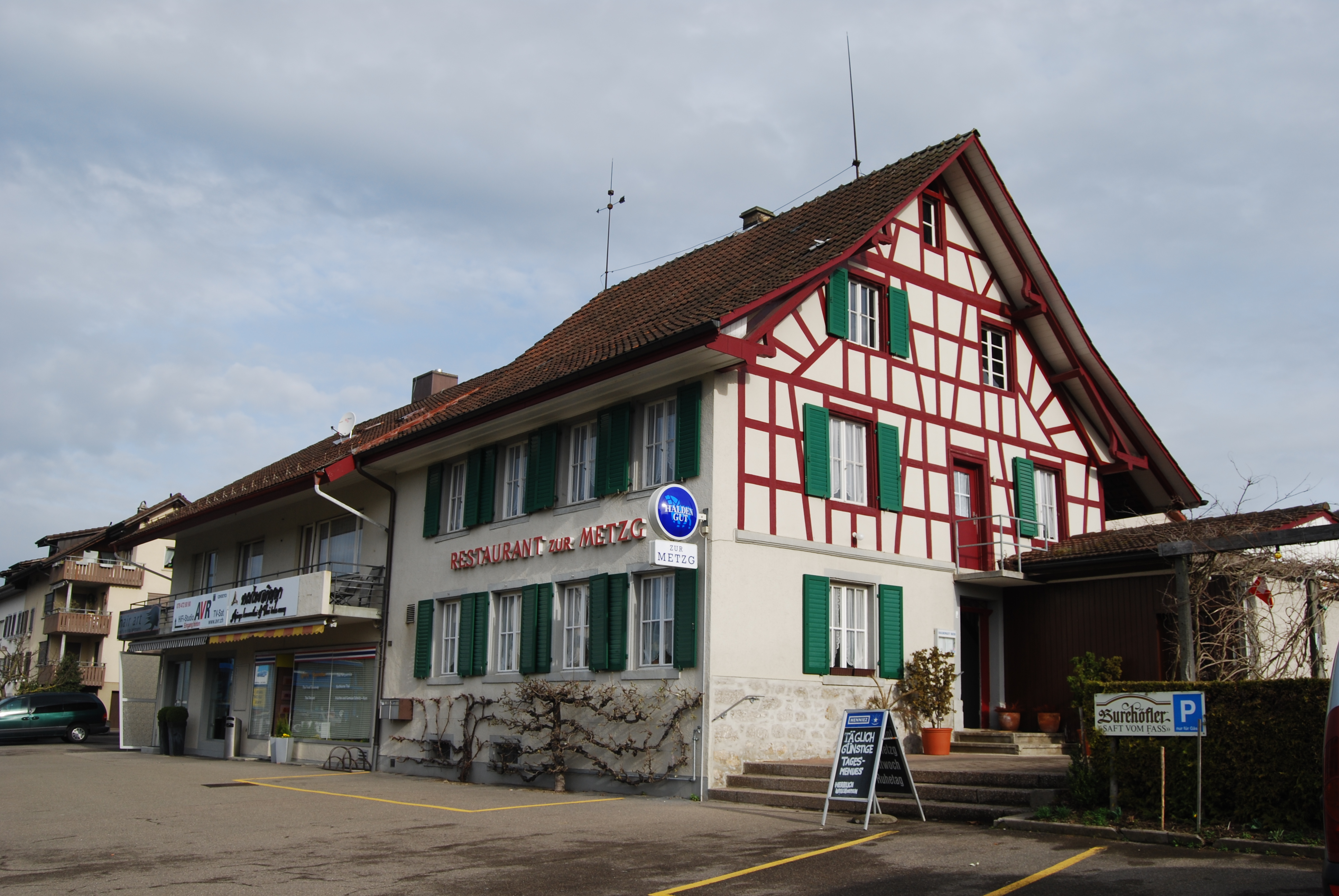 Restaurant zur Metzg at Oberweningen, canton of Zürich, SwitzerlandEsperanto: Restoracio zur Metzg en Oberweningen, Kantono Zuriko, Svislando